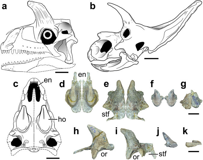 Cranial anatomy of Shringasaurus indicus gen. et sp. nov. and comparison with the skull of a ceratopsid dinosaur that possesses convergent supraorbital horns. (a) Reconstruction of the skull of Shringasaurus indicus in left lateral view. (b) Drawing of the skull of Arrhinoceratops brachyops in left lateral view (based on ROM 79648). (c) Reconstruction of the skull of Shringasaurus indicus in dorsal view. (d–g) Partial skull tables of Shringasaurus indicus in dorsal views (ISIR 781, 780, 786, 789, 790 from left to right), one side has been digitally mirrored in (d–f). (h–k) Partial skull tables of Shringasaurus indicus in left lateral views (ISIR 781, 780, 786, 790 from left to right). Specimens (d–f) and (h–j) possesses horns and specimen/s (g) and (k) lacks horns. Scales = 4 cm for (a) and ( c–k), and 20 cm for (b). en, external naris; ho, horn; or, orbit; stf, supratemporal fenestra.